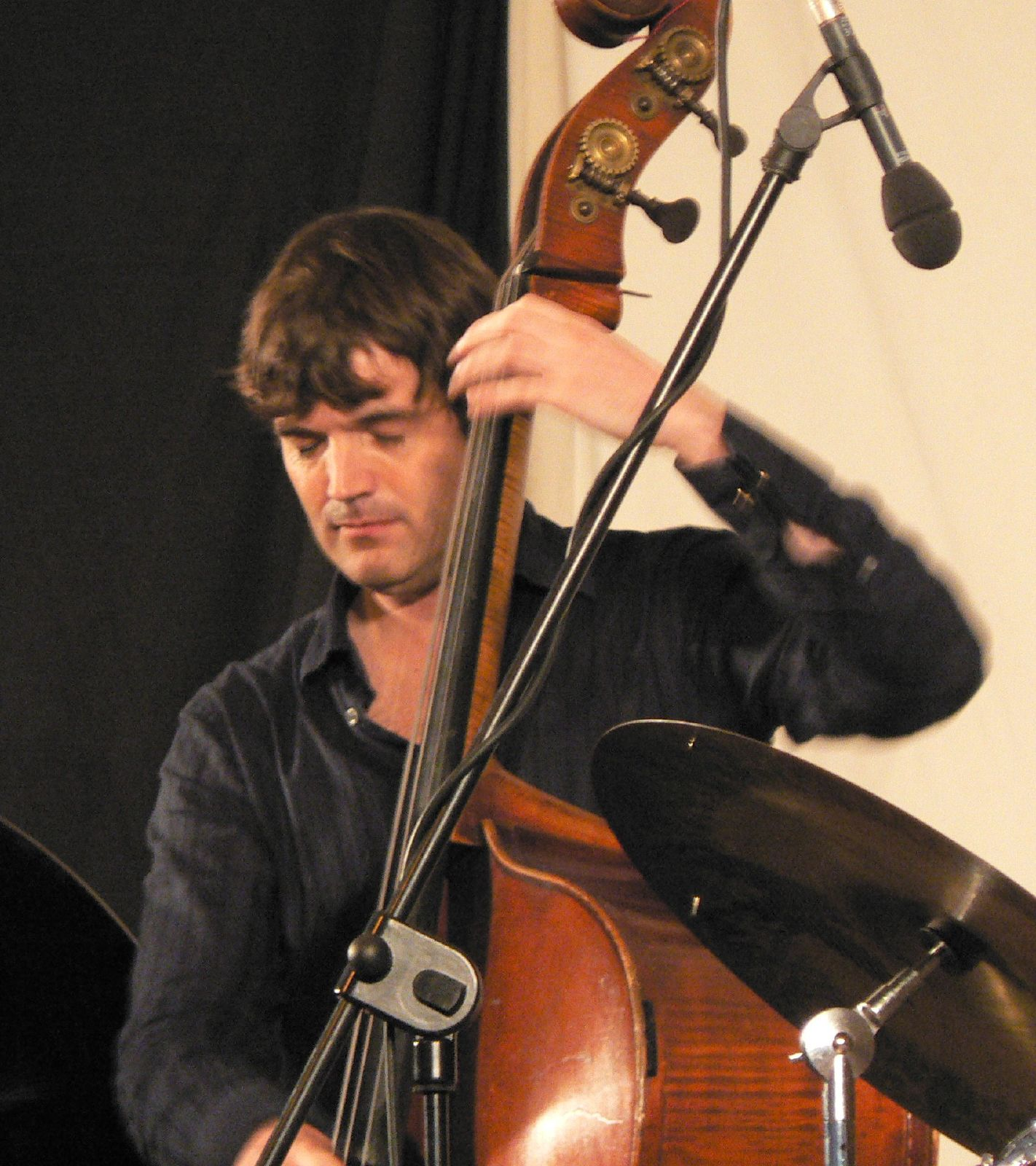 Andrew Cleyndert at the Appleby Jazz Festival 2007.